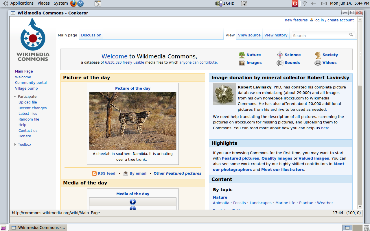 Screenshot from my computer of Conkeror web browser showing Wikimedia Commons front page running on Ubuntu 10.04 Linux. The program is free software, licensed under the GNU General Public License